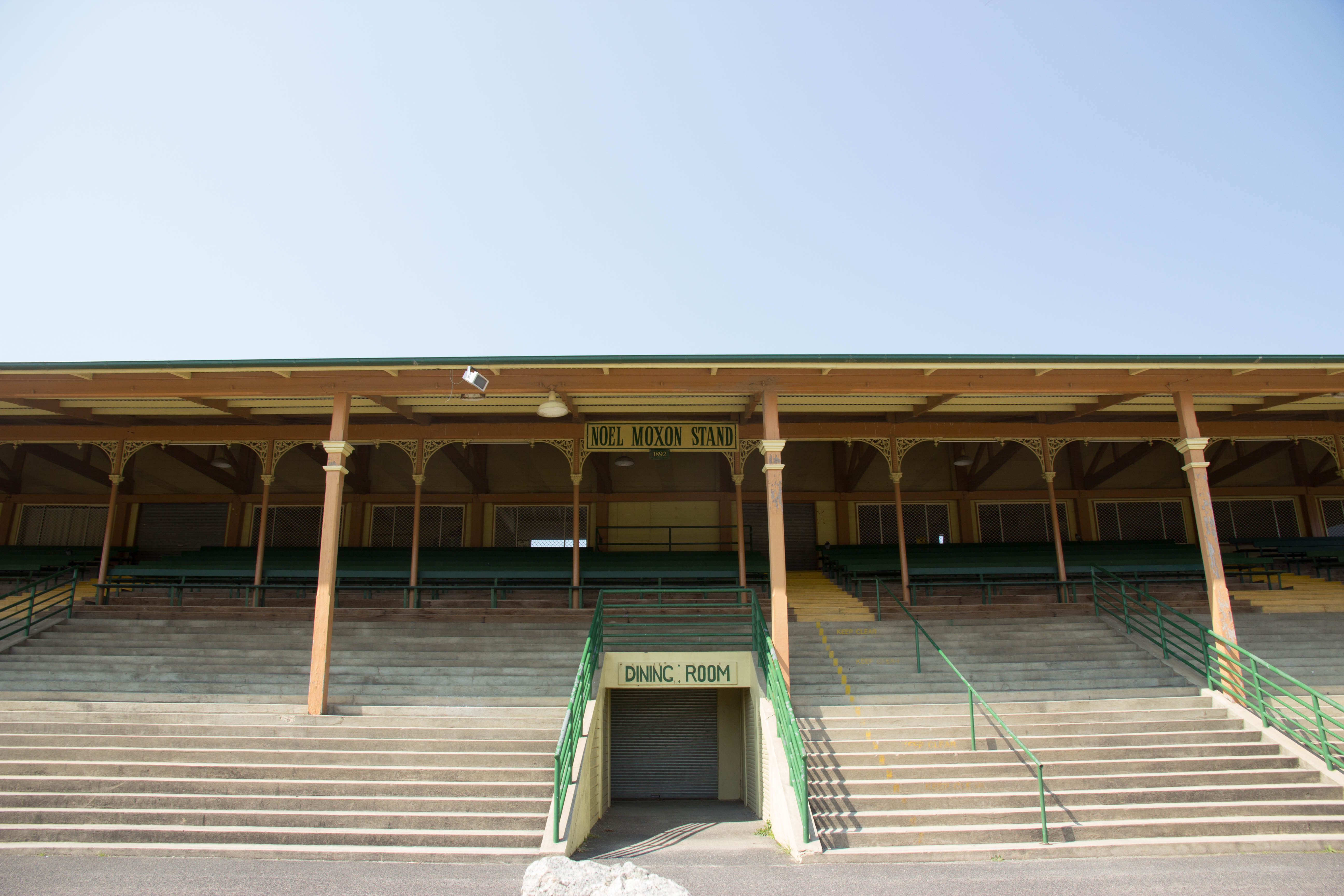 Bathurst Showground in Bathurst, New South Wales